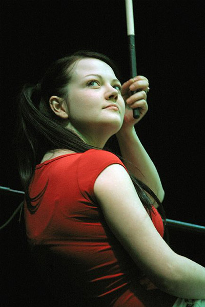 Meg White of The White Stripes129911452_cae44196c6